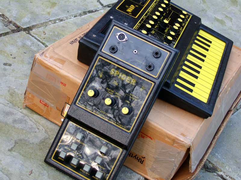 EDP Spider (shown in front of EDP Wasp)